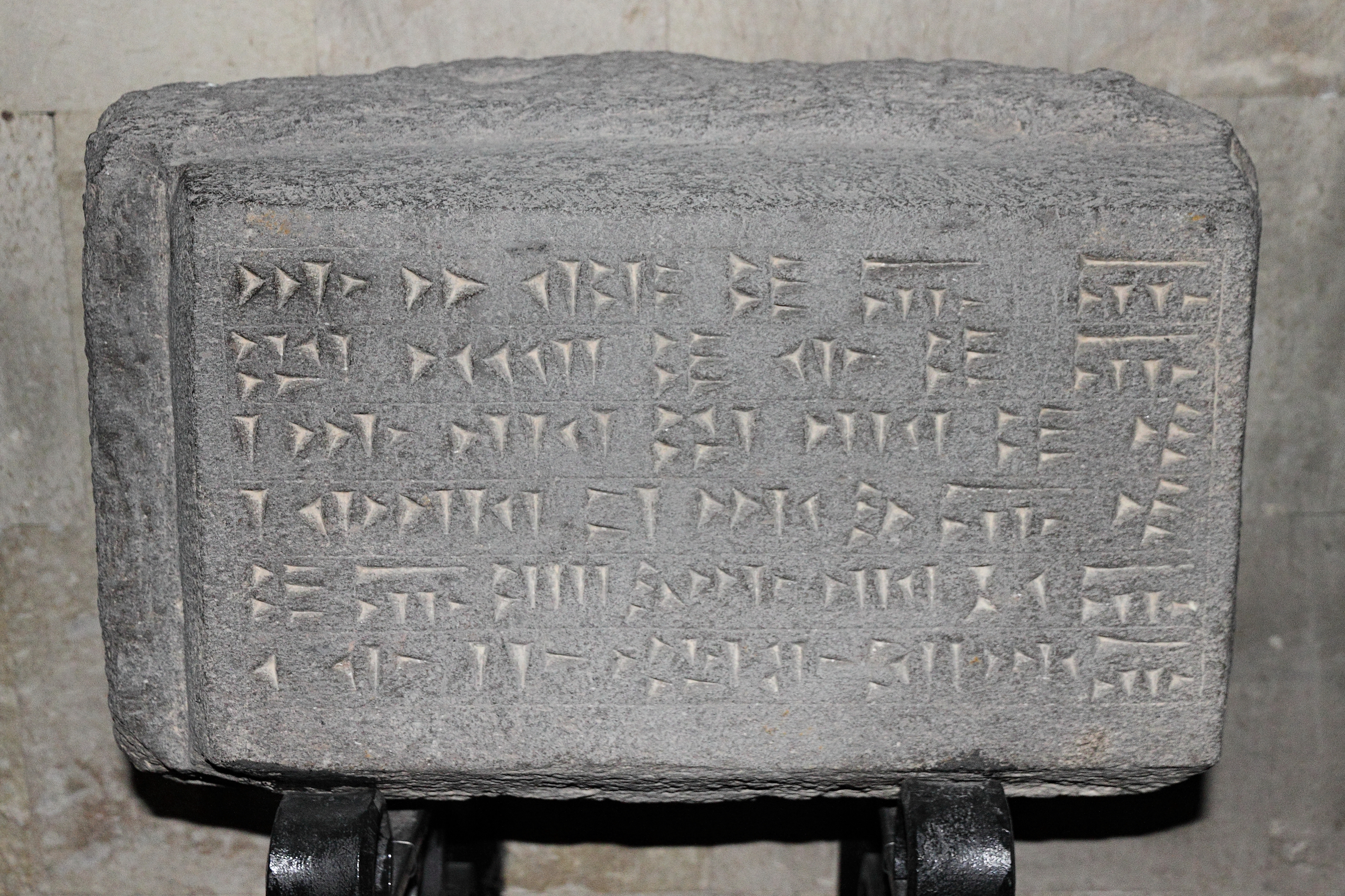 A stone tablet with cuneiform in Urartian language. Erebuni Museum. Erebuni District. Yerevan, Armenia.